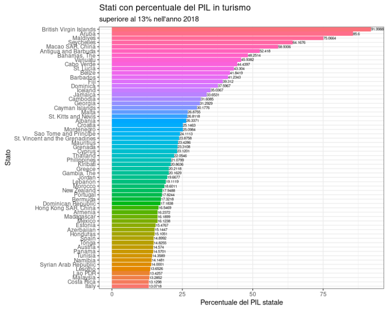 file realizzato con RStudio